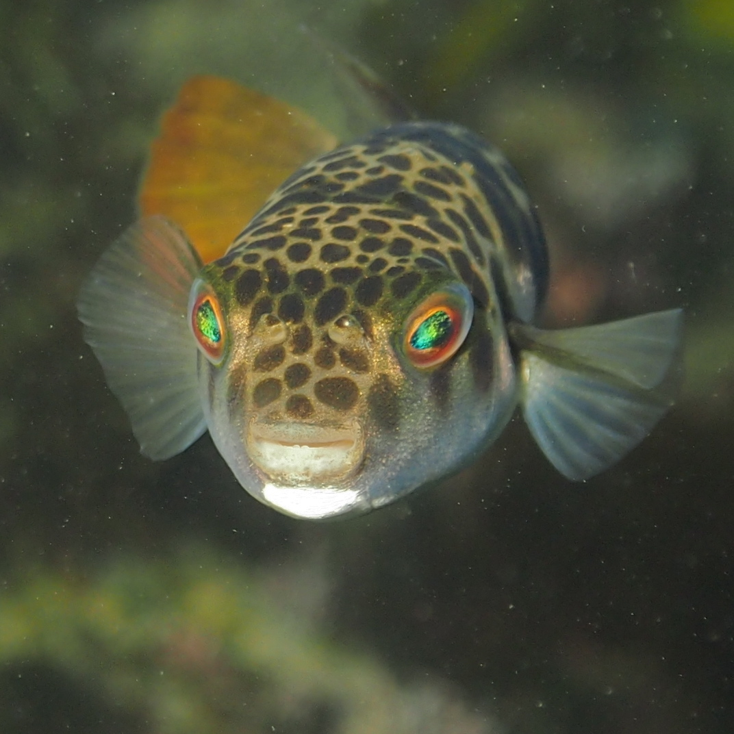 Smooth Toadfish - Tetractenos glaber at Clovelly Pool, Sydney, NSW